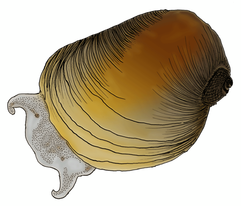 Colored drawing of Erinna newcombi.